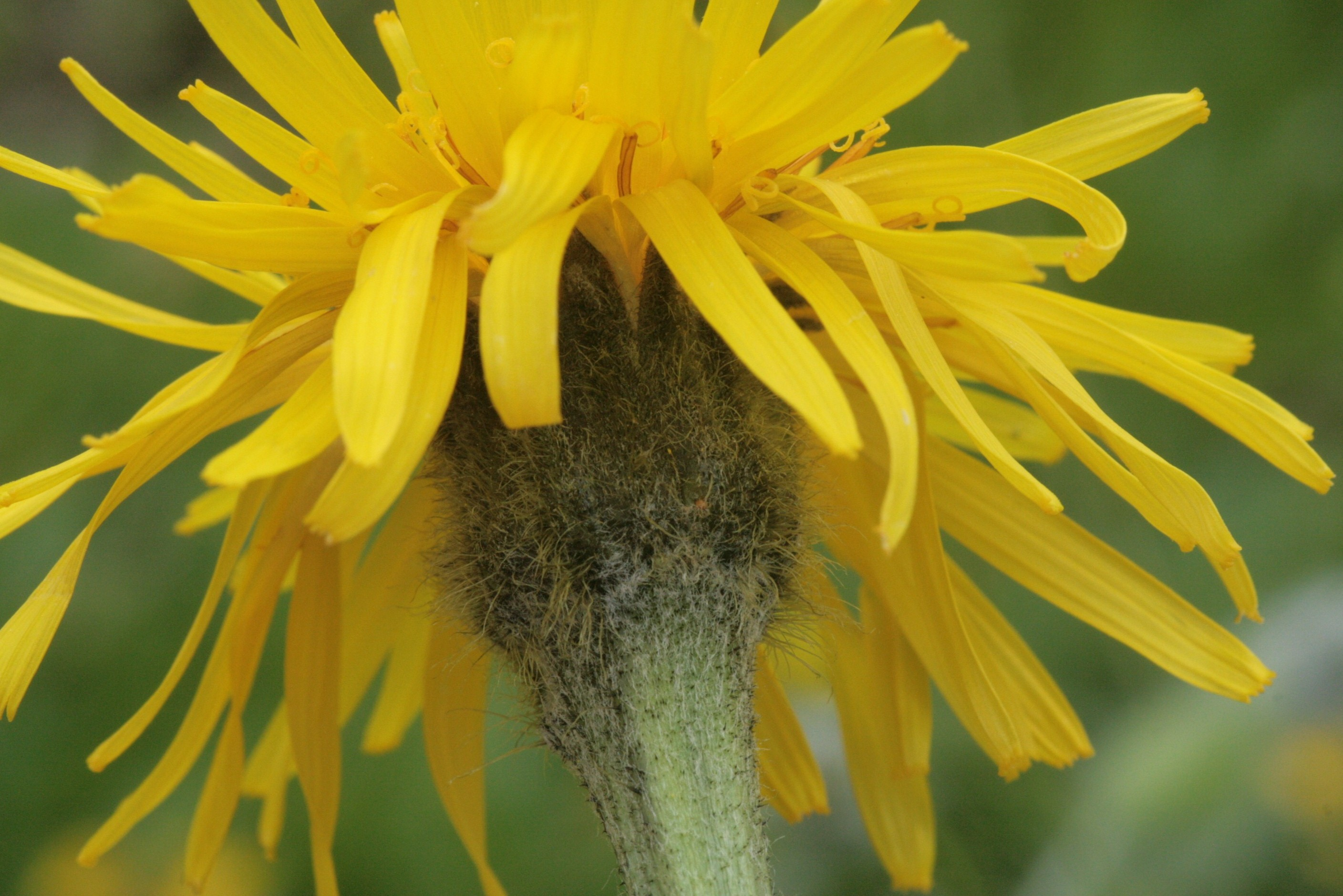 Crepis pontana